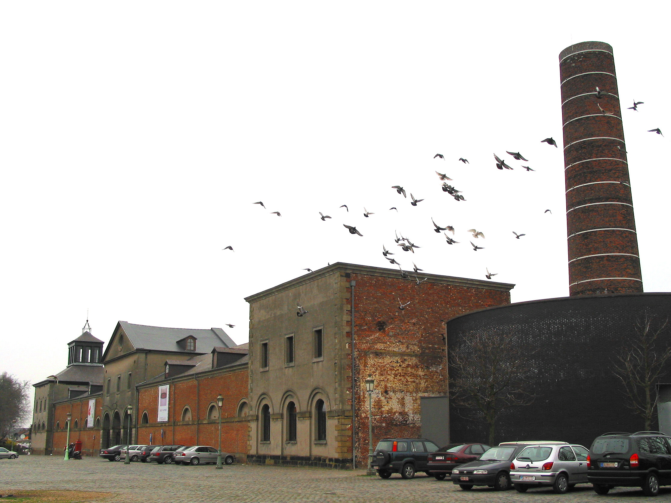 Hornu (Belgium), western side of the former industrial complex called "Grand-Hornu" built by Henri De Gorge between 1810 and 1830, according to plans by architect Bruno Renard.